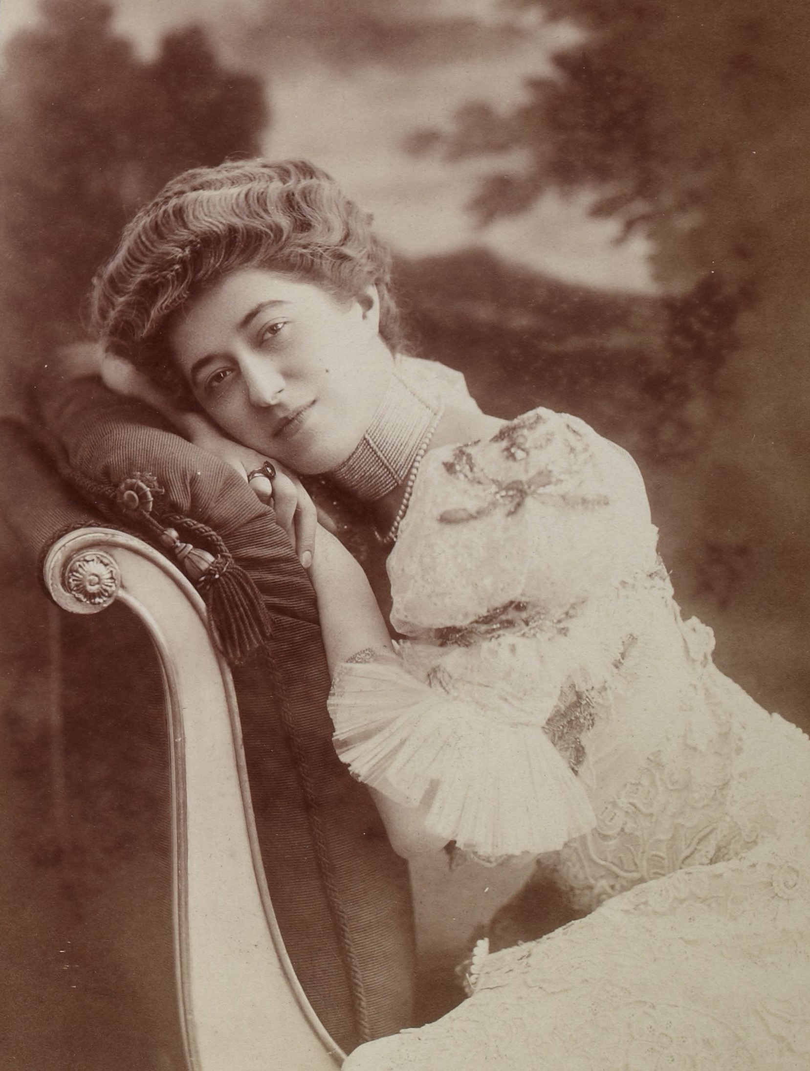 [Album Reutlinger de portraits divers, vol. 40] : [photographie positive] : Jeanne Rolly ; Dorziat